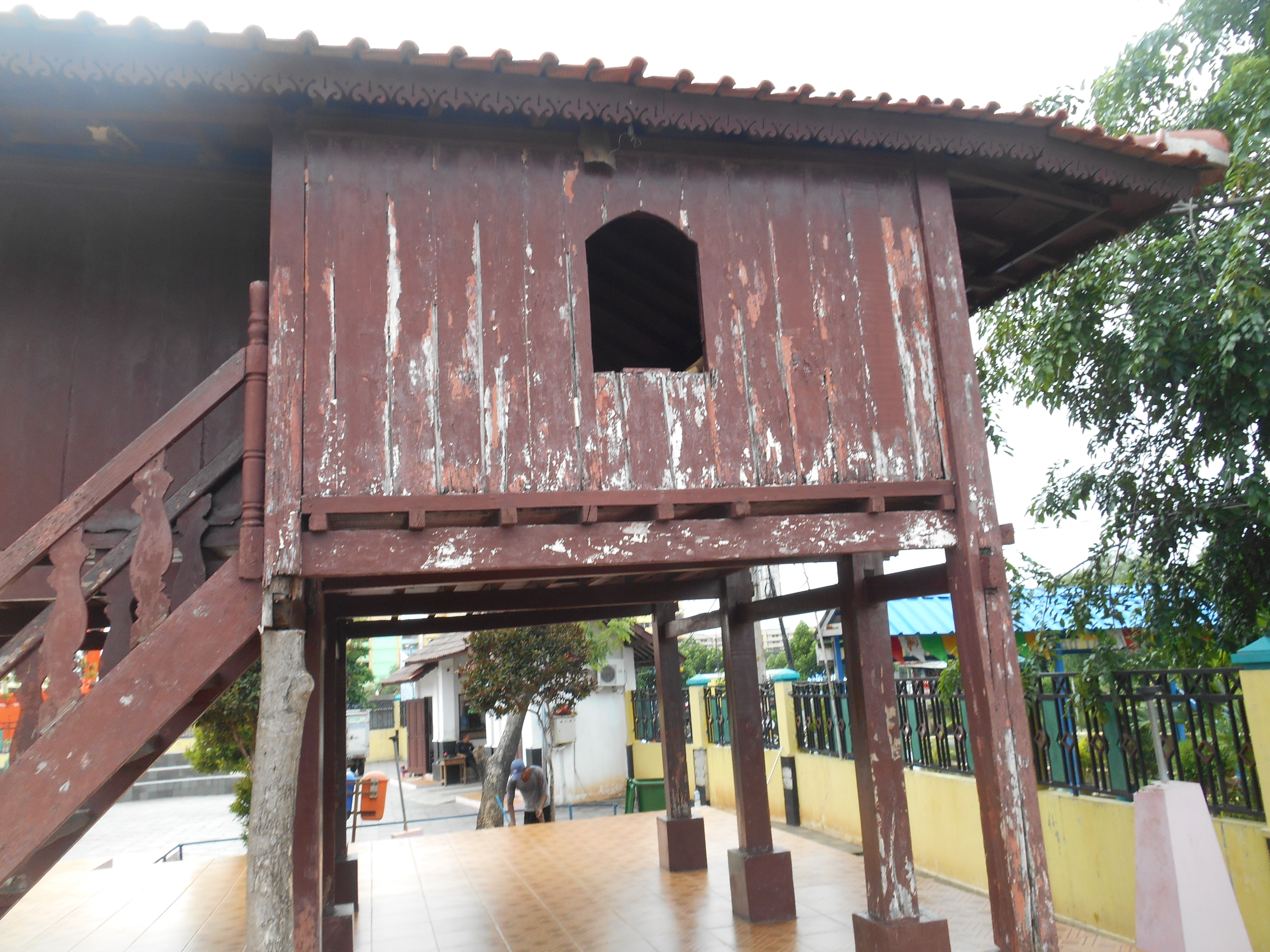 Jendela tanpa daun di bagian belakang Rumah si Pitung yang melengkung menyerupai bentuk kubah masjid